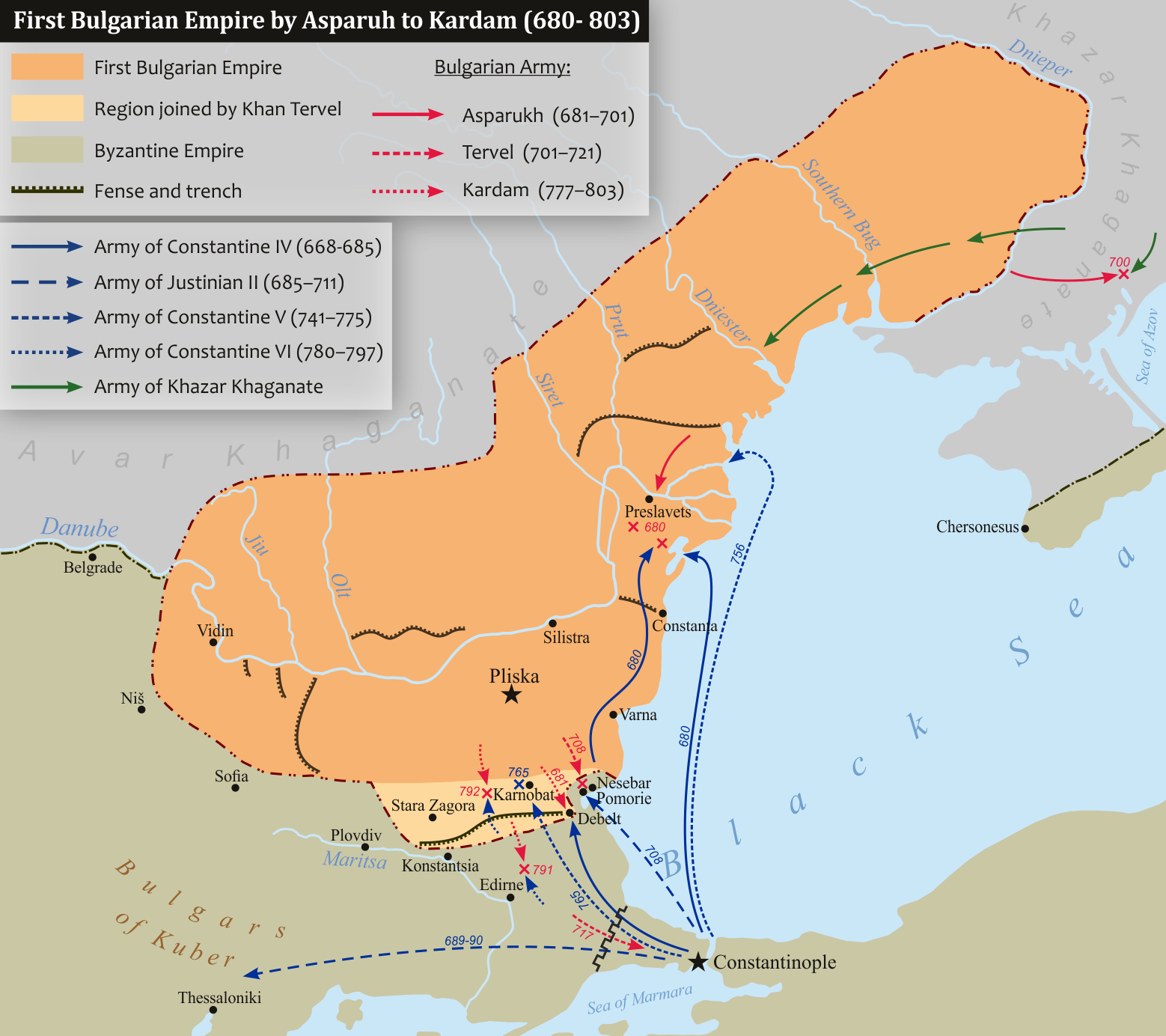 First Bulgarian Empire by Asparuh to Kardam (680- 803) Основана на карта "Българя (681-777г.)" в "Атлас по история и цивилизация за 11 клас", издателство "Картография", София, 2007 г. [1]